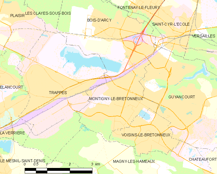 Map of French municipality Montigny-le-Bretonneux